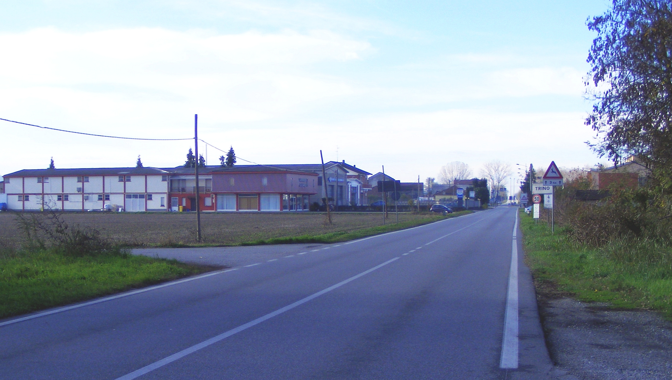 Former national road n. 31 bis del Monferrato nearby Trino (VC)